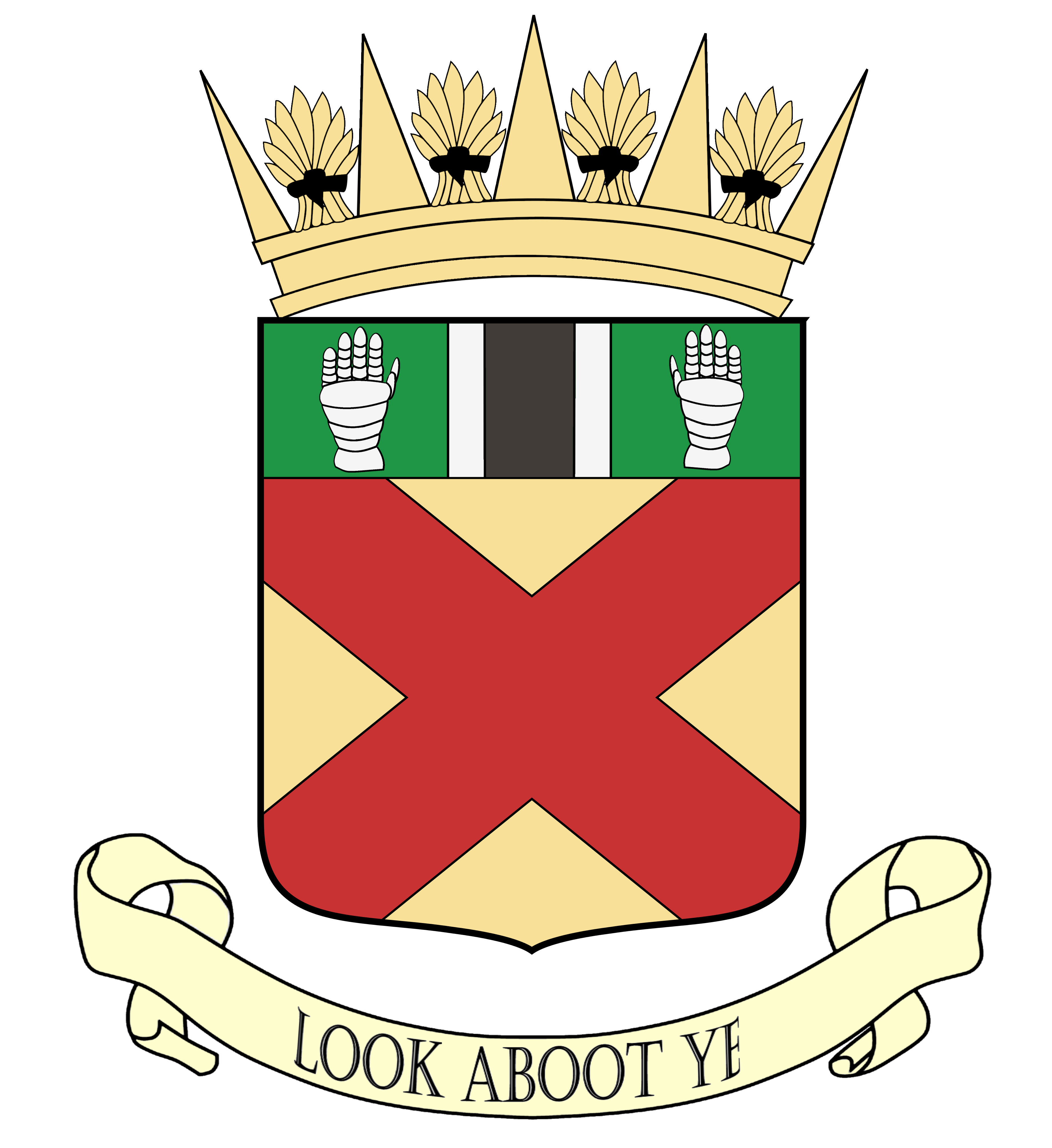 Arms of the council of the County of Clackmannan in Scotland. Blazon: Or, a Saltire Gules, on a chief Vert between two Gauntlets Proper a Pale Argent charged with a Pallet Sable.